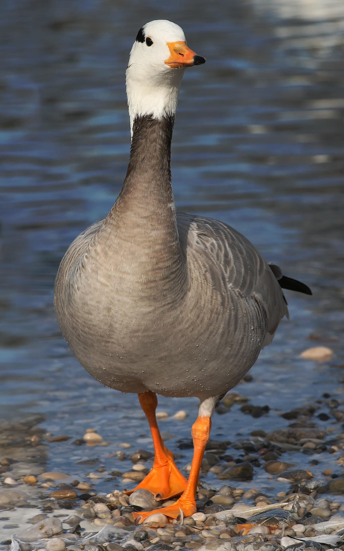 Description: The Anserinae is a subfamily in the waterfowl family Anatidae. It includes the swans and true geese. As shown (Anser indictus)